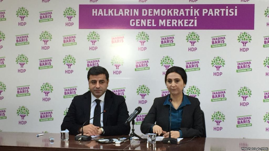 HDP co-leaders Selahattin Demirtaş and Figen Yüksekdağ giving a statement after the November 2015 general election